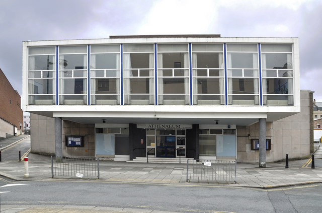 The rebuilt Plymouth Athenaeum building, which opened in 1961